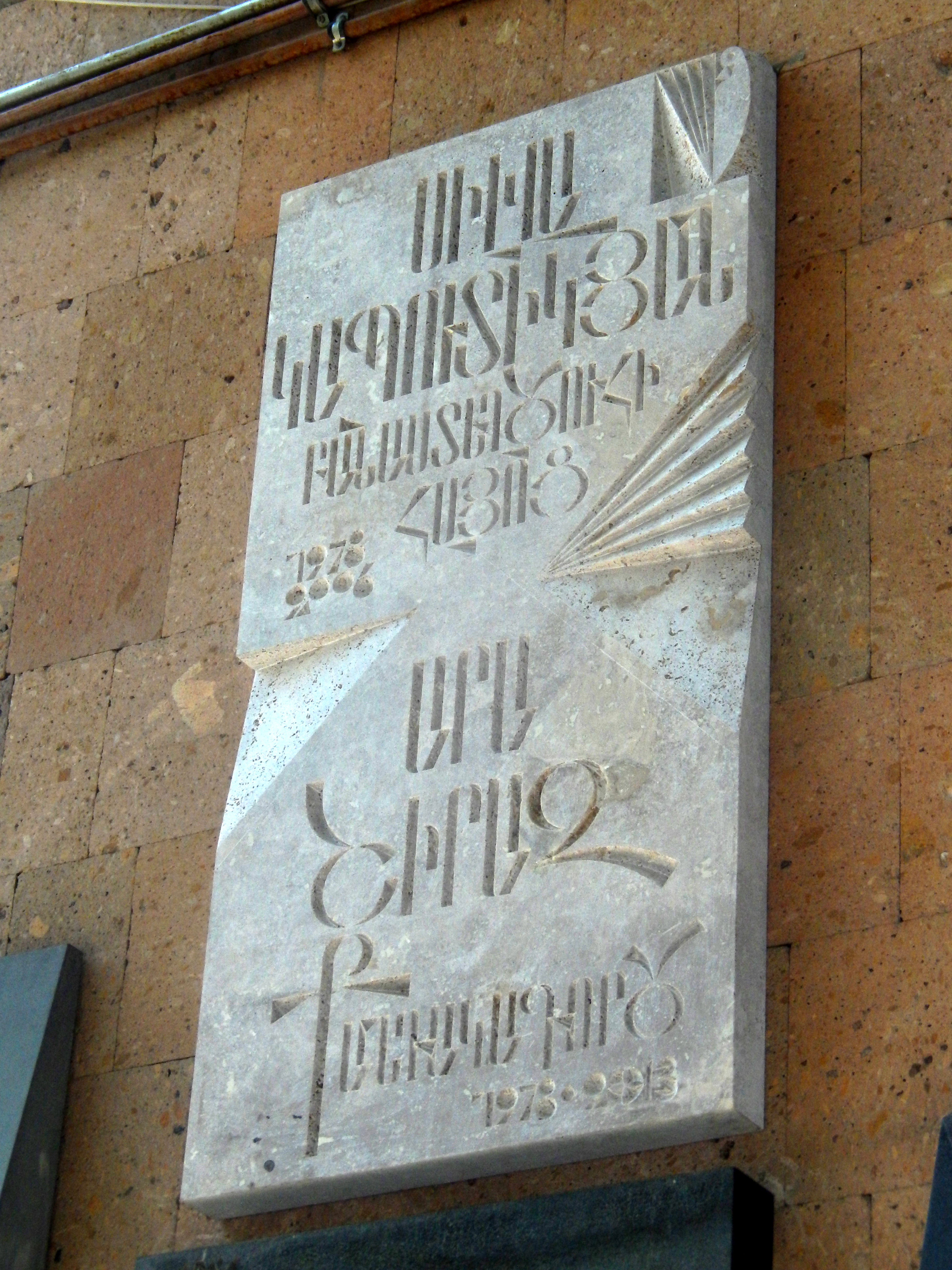 Silva Kaputikyan's and Ara Shiraz's plaque on Silva Kaputikyan's Street of Yerevan